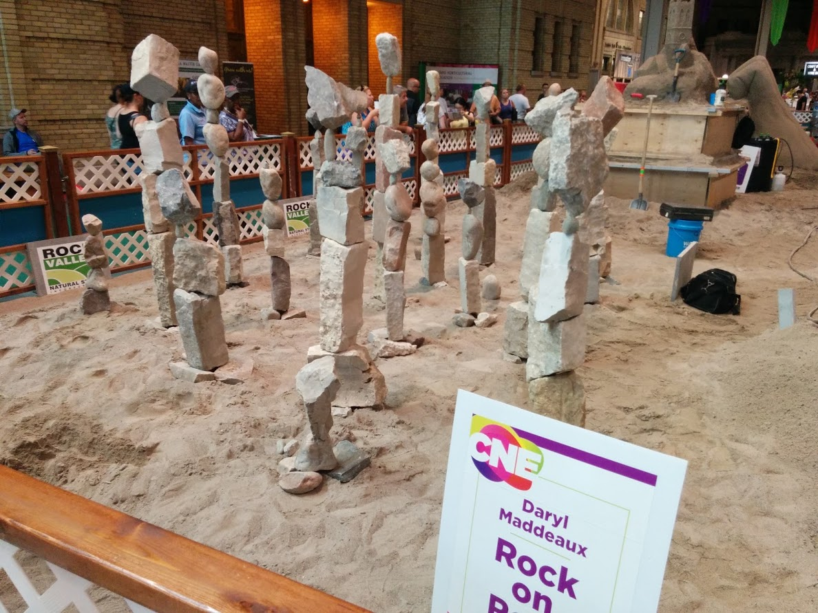 Rocks balanced as part of sand sculptures